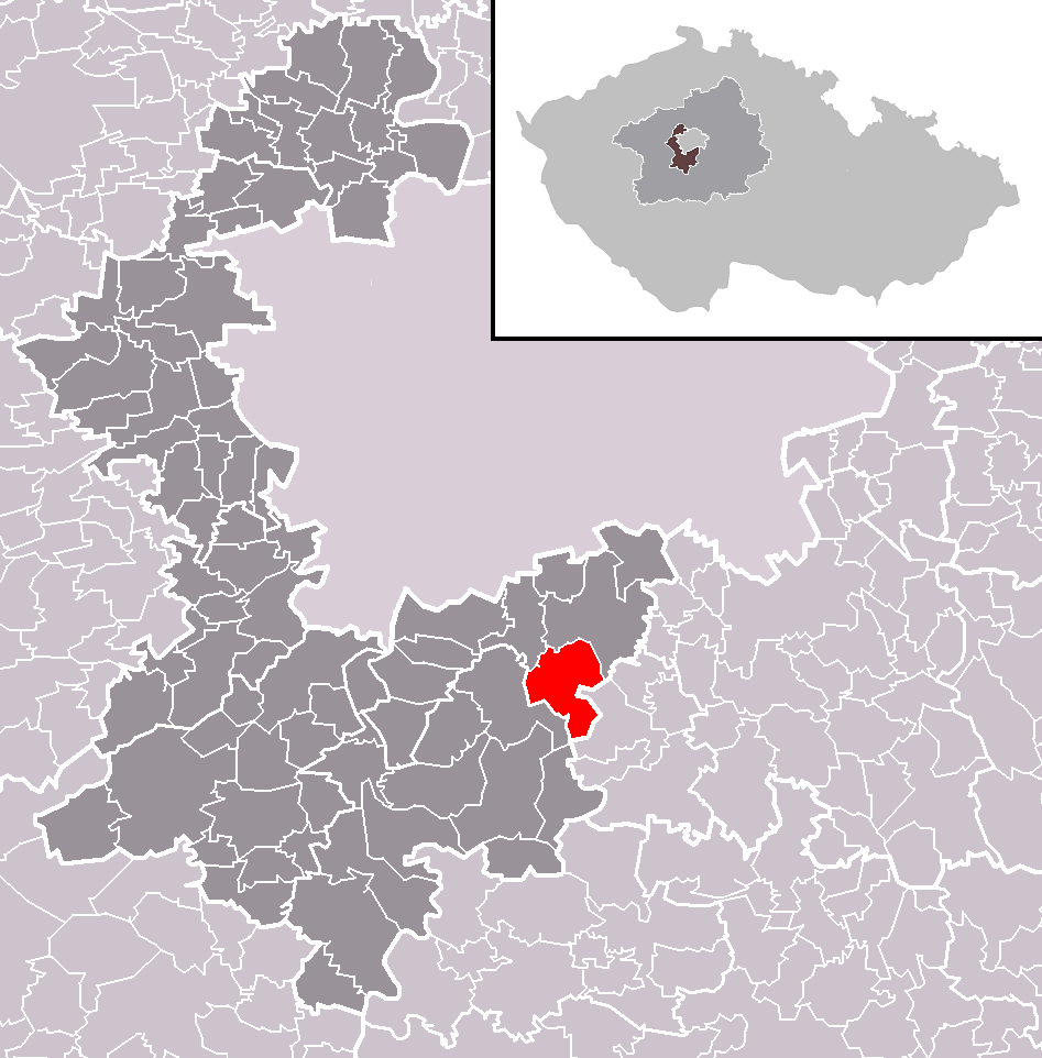 Location of Psáry municipality within Prague-West District and administrative area of Černošice as a Municipality with Extended Competence.